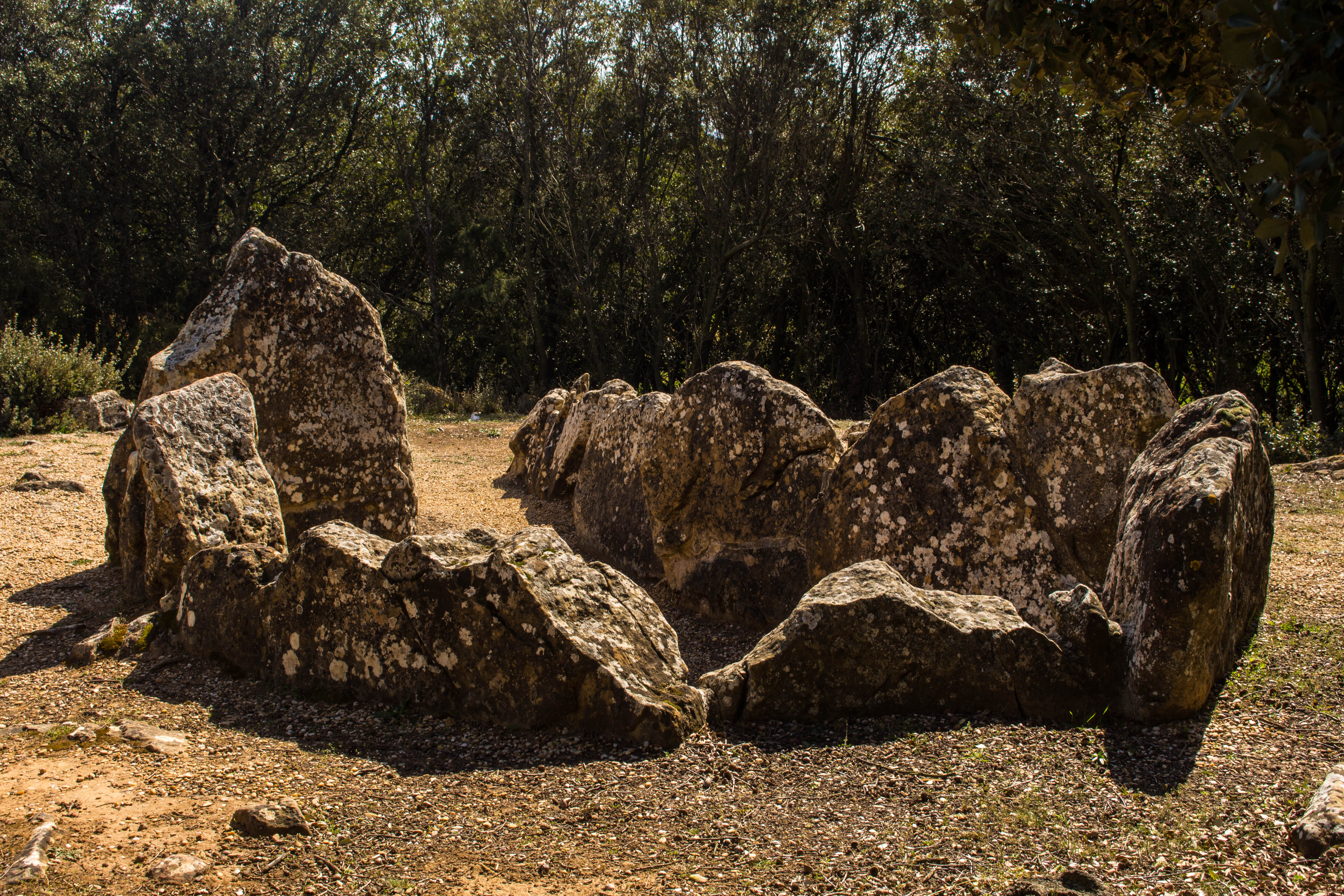 A dolmen shaped polygon